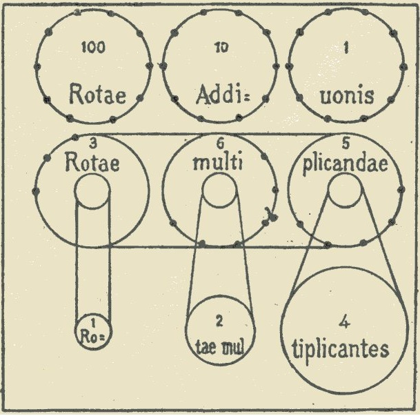 Drawing by Leibniz showing how his calculator could use Pascal's calculator. First description of a pinwheel design (1685)